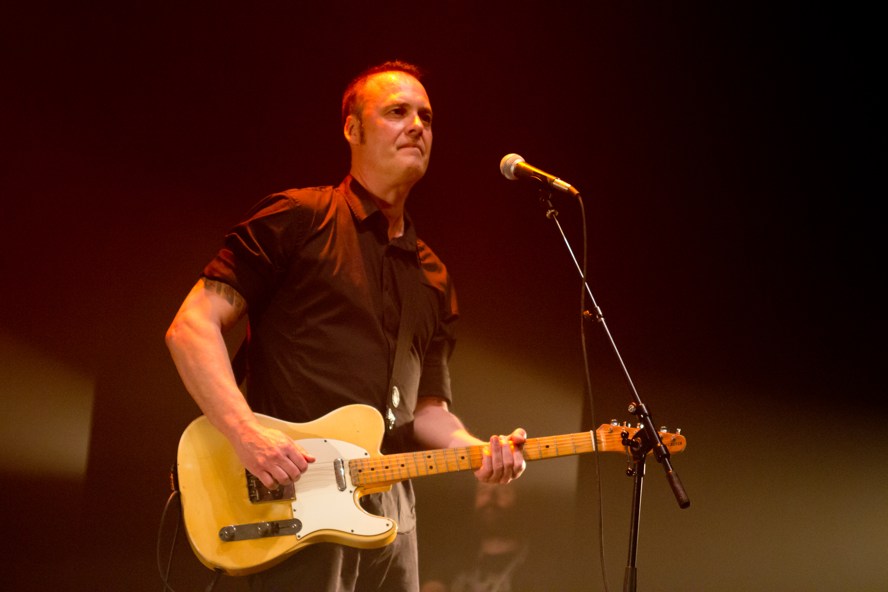 Spanish rock band M Clan live in May 2013.